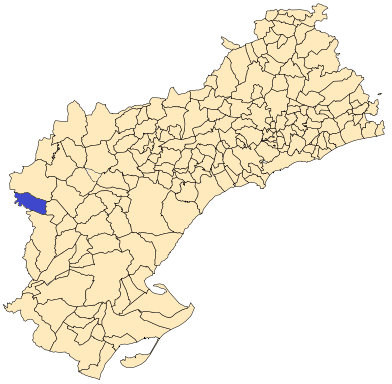 Caseres